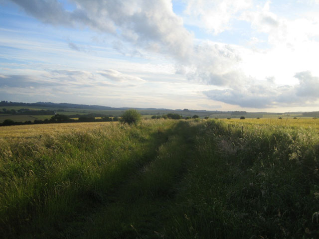 Ox Drove near Chilmark 2. This is the Ox Drove, a drove road of possibly pre-Roman antiquity that runs east-west predominately along chalk downland in west Wiltshire, see 481937. On this stretch the drove road is a restricted byway as well as being part of the Monarch's Way. In the far distance are the hills of the West Wiltshire Downs near Fonthill.